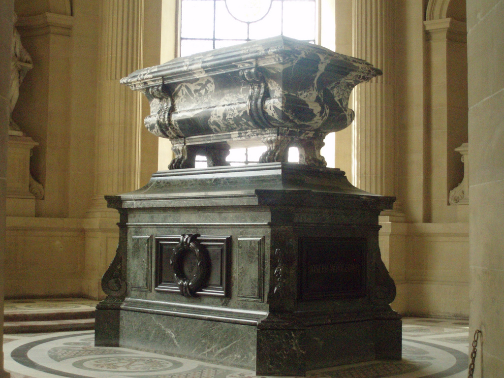 Joseph Bonaparte's tomb, Dôme des Invalides (Paris)